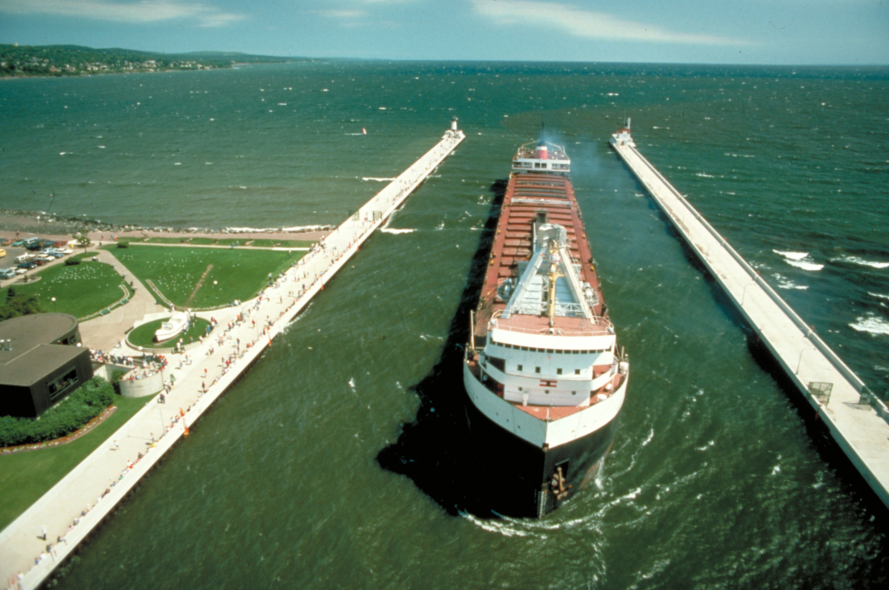 An unidentified lake freighter of the Canadian Steamship Lines entering Duluth Ship Canal in Duluth, Minnesota